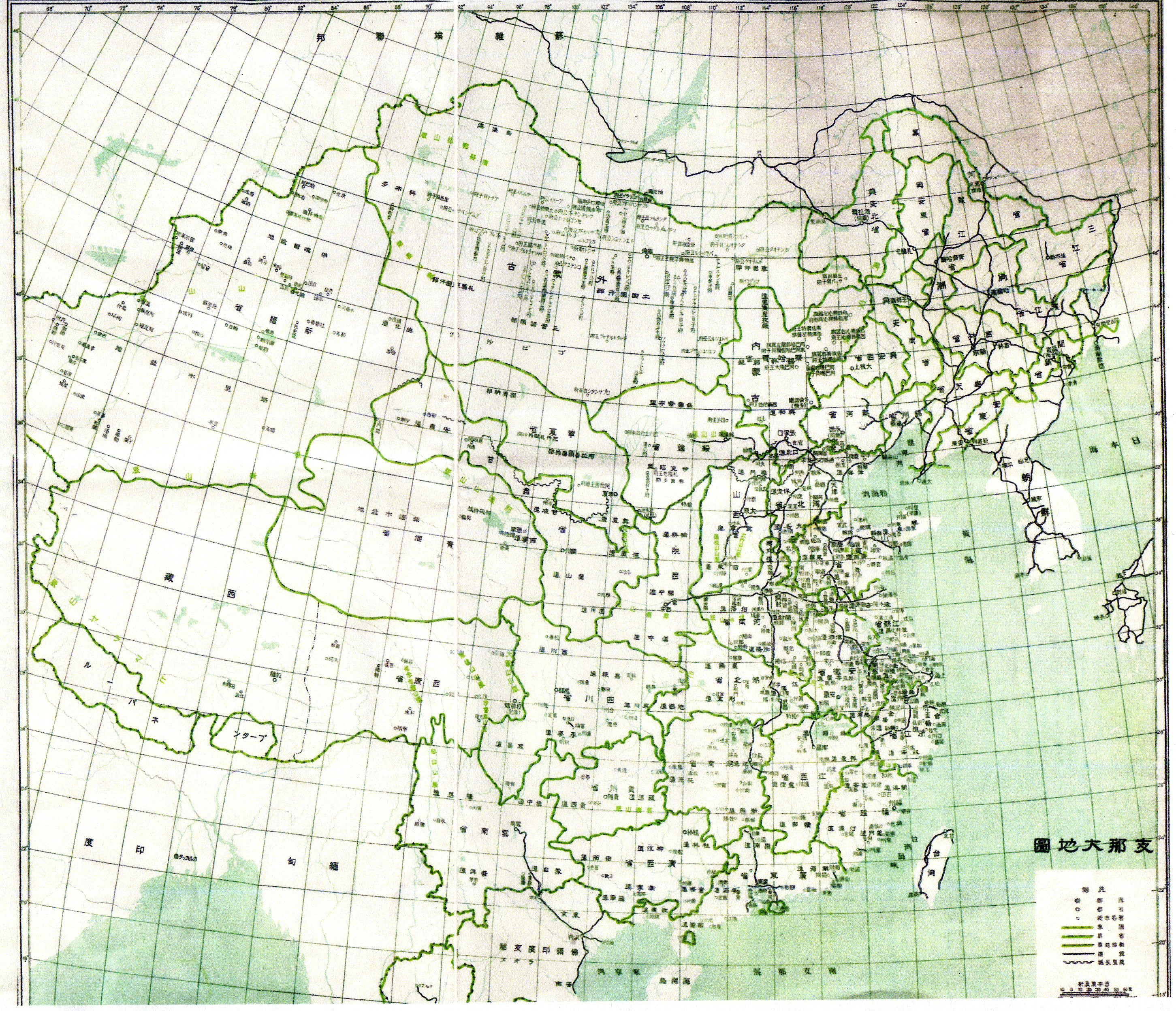 Japanese Map of "Shina" (a branding of China)